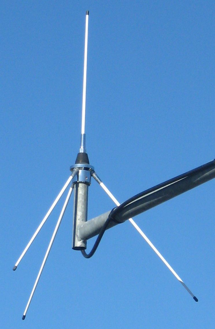 VHF ground plane antenna. This is a quarter-wave whip (monopole) antenna (white rod at top) with three grounded conductors projecting down from the base of the whip to form a "ground plane". Ground plane antennas have an omnidirectional radiation pattern, radiating equal signal strength in all azimuthal directions, with the radiated power maximum in a horizontal direction and decreasing with elevation angle to zero on the antenna axis. The ground conductors serve to increase radiated power in the horizontal direction. In many ground plane antennas the ground rods project horizontally from the base; in this antenna they are angled down to increase the input impedance of the antenna to 50 ohms, to match the 50 ohm coaxial cable feedline.